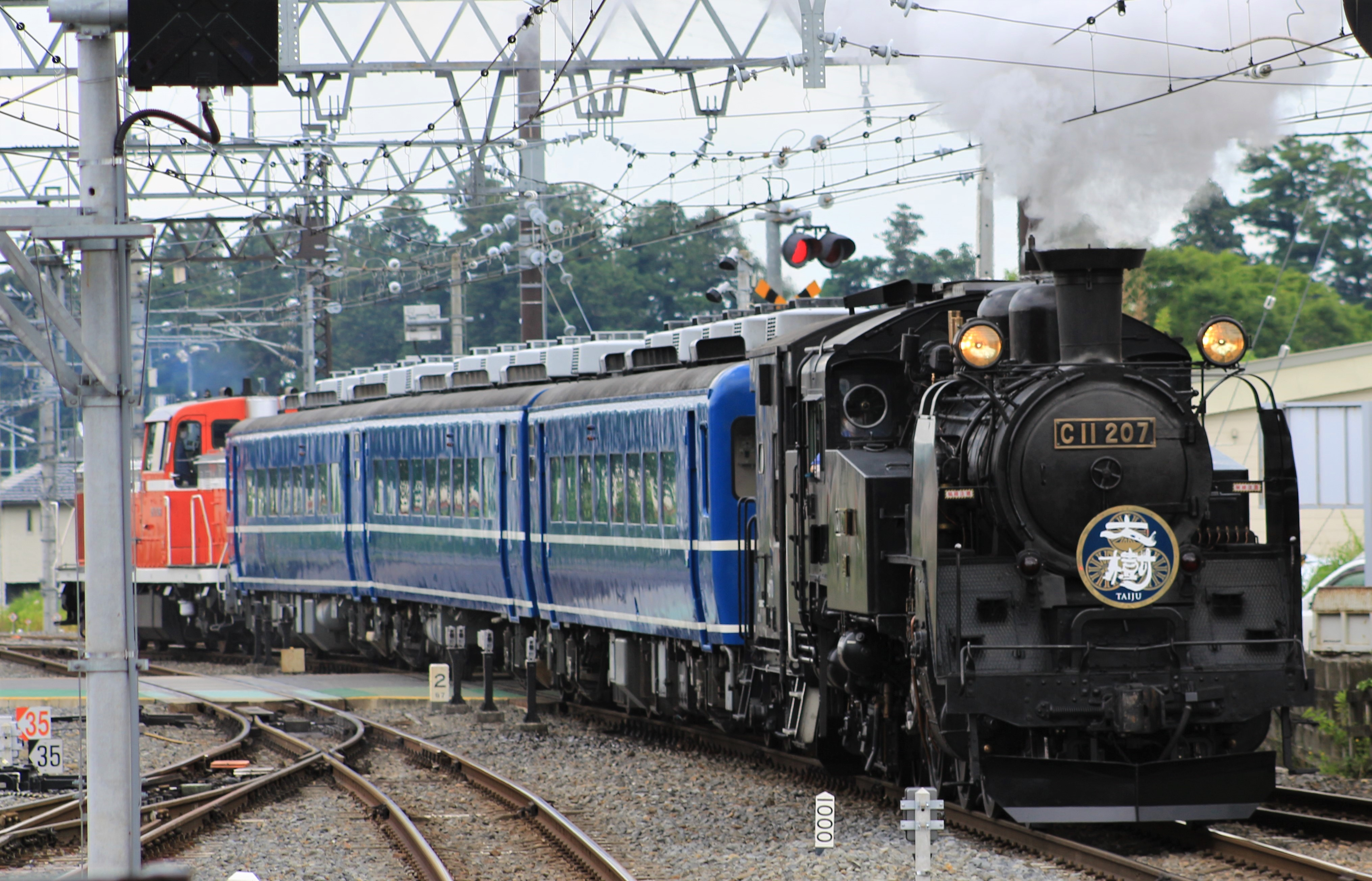 Class C11 steam locomotive C11 207 on the up SL Taiju